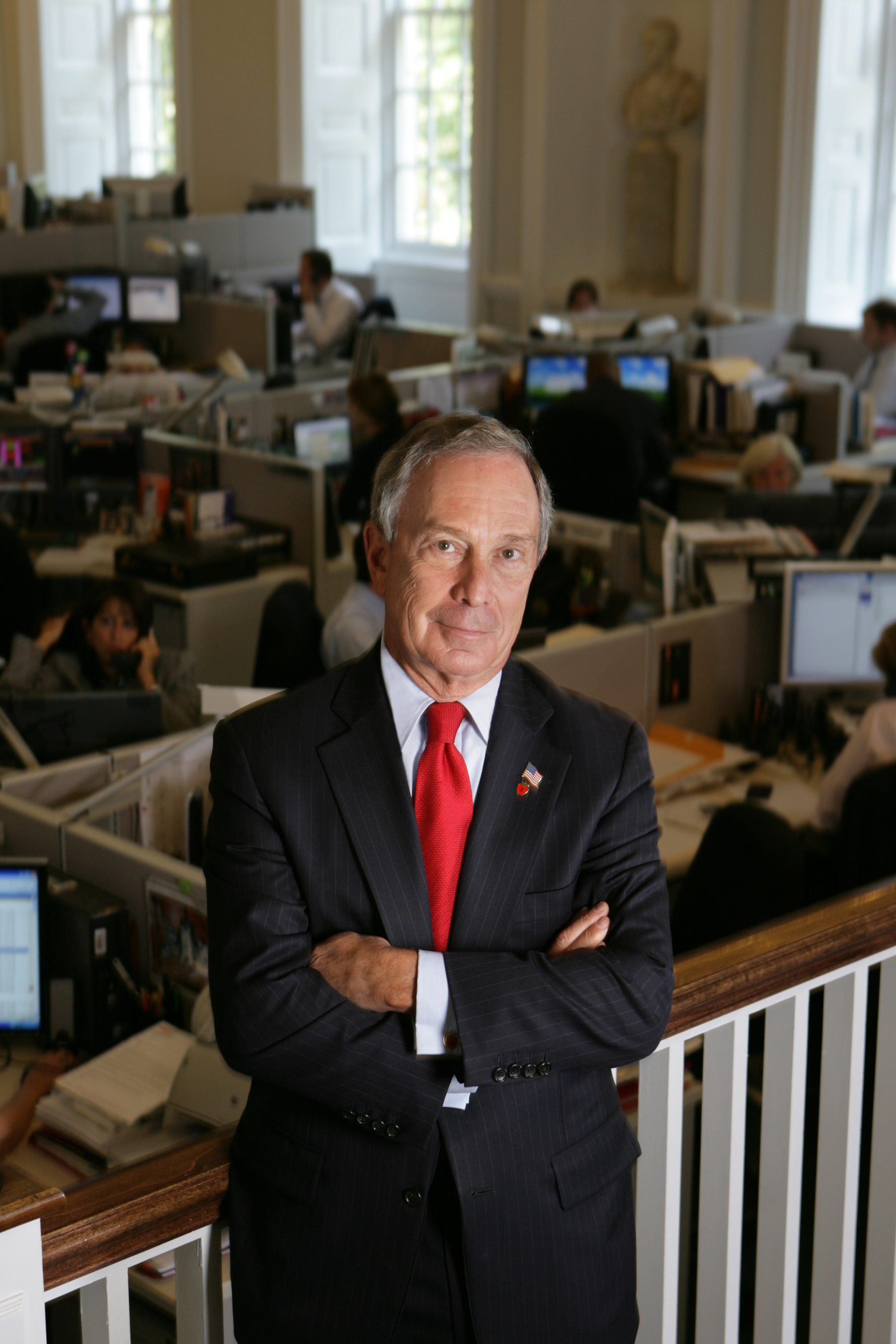 New York Mayor, Michael R. Bloomberg.